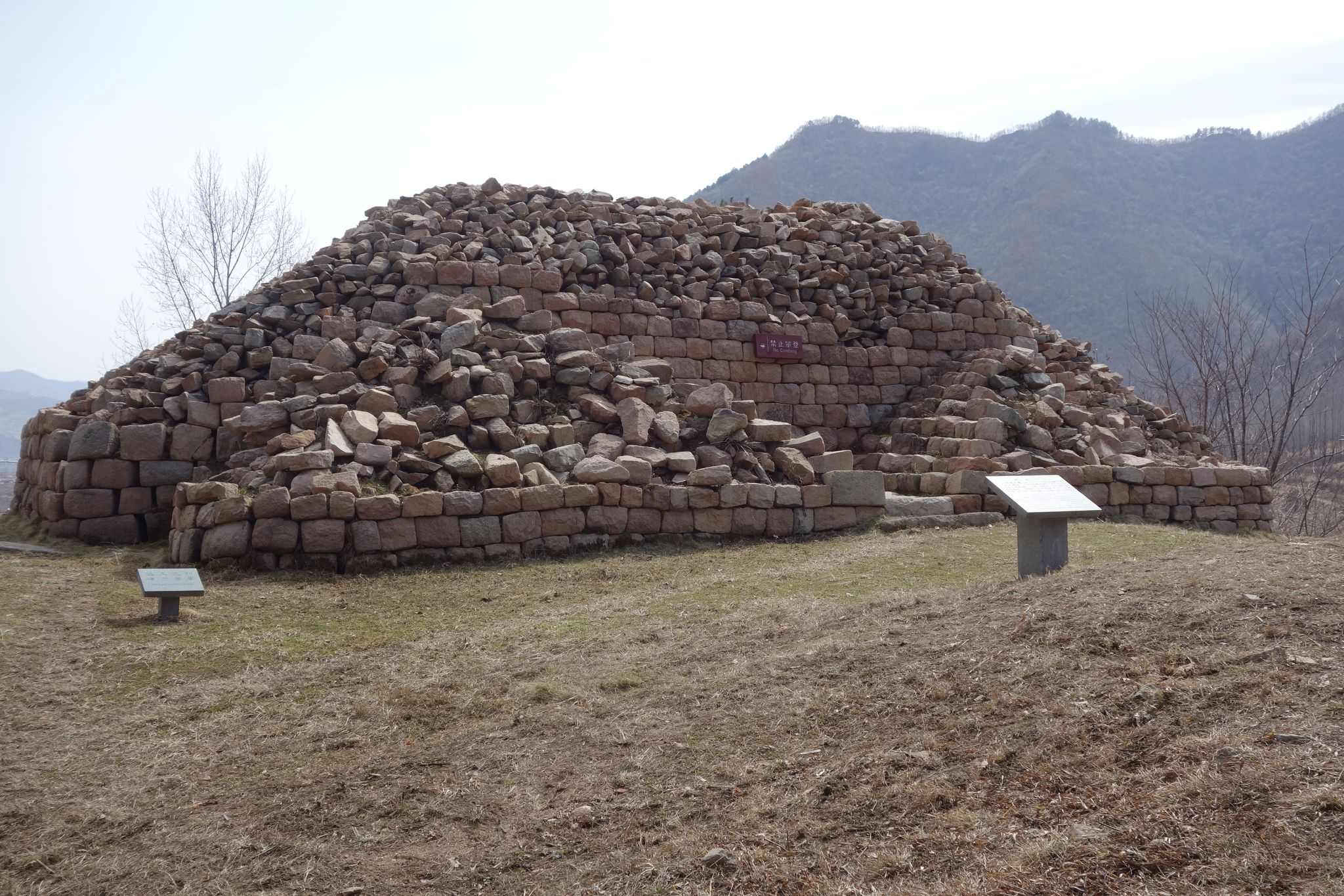 Remains of guard tower at Hwando Mountain Fortress